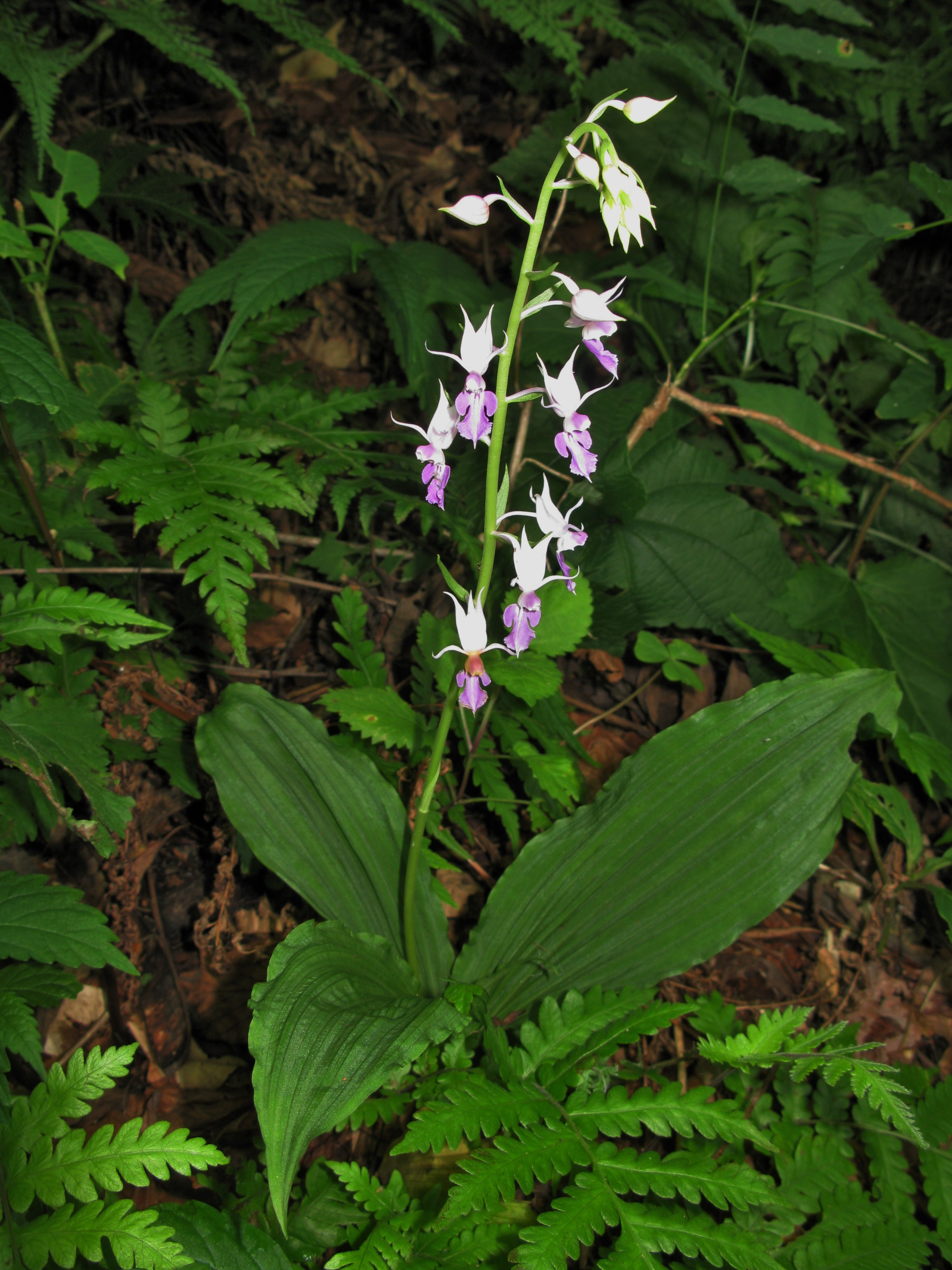 Calanthe reflexa, Mount Mikagura-dake, Niigata pref., Japan